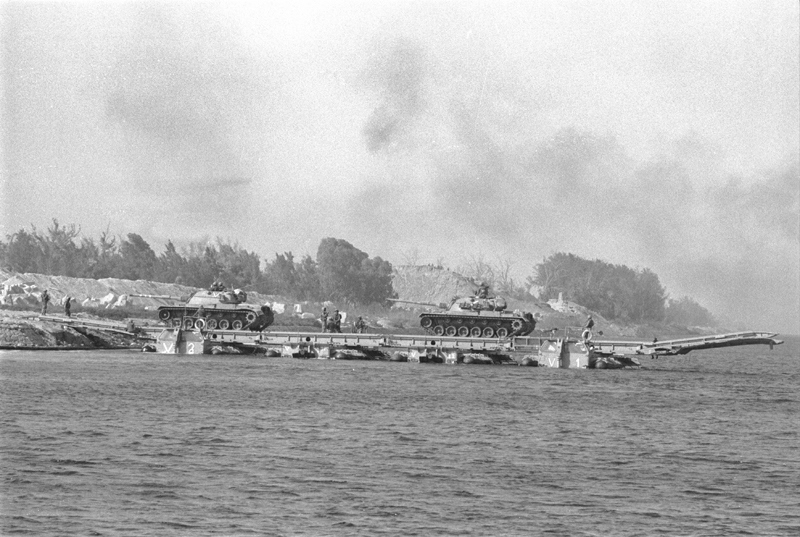 The EWK-Gillois bridgelayer "Timsah" used by the IDF to ford the Suez Canal